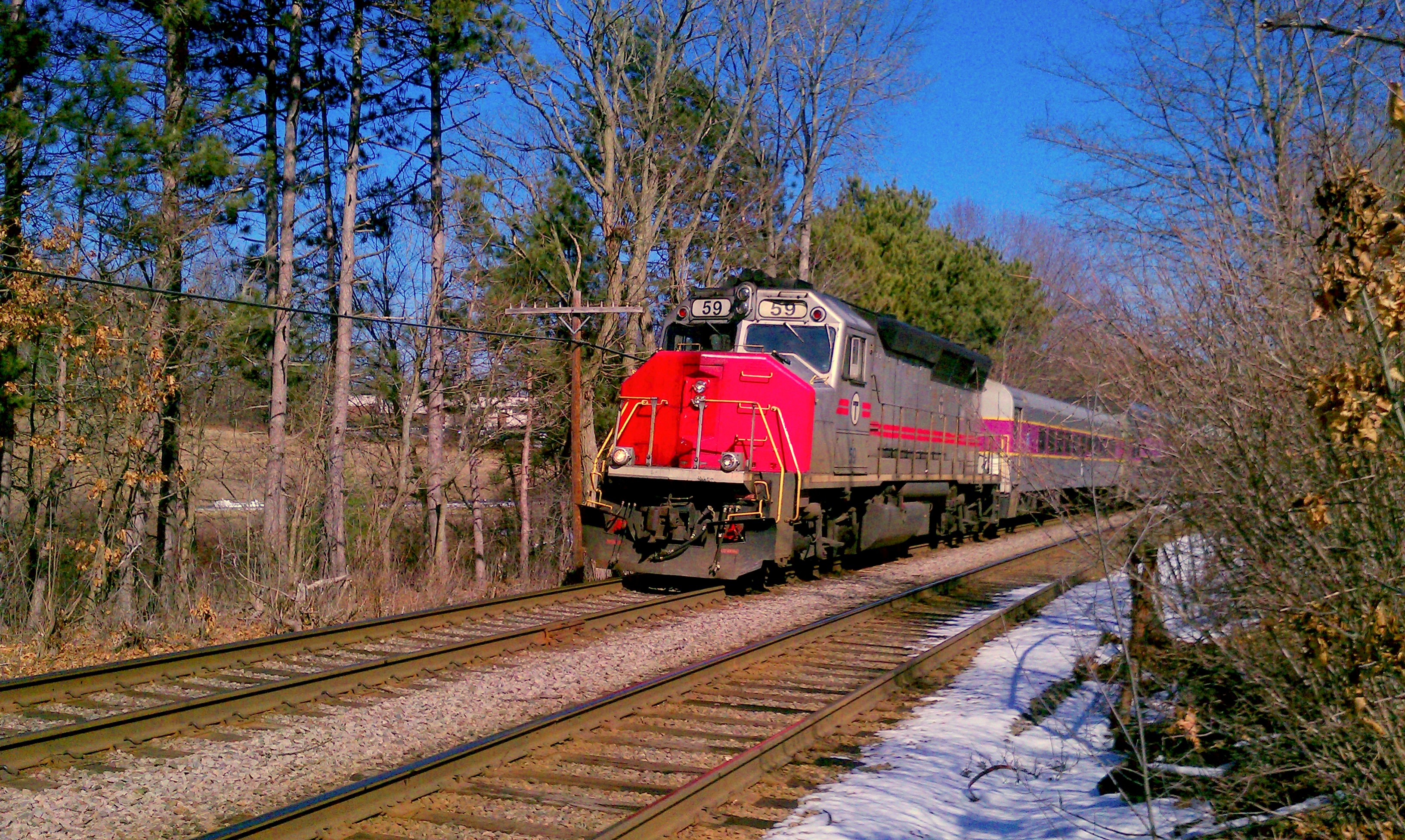 MBTA #59 (rented from MARC) leads an outbound train through West Concord, Massachusetts near Baker Street